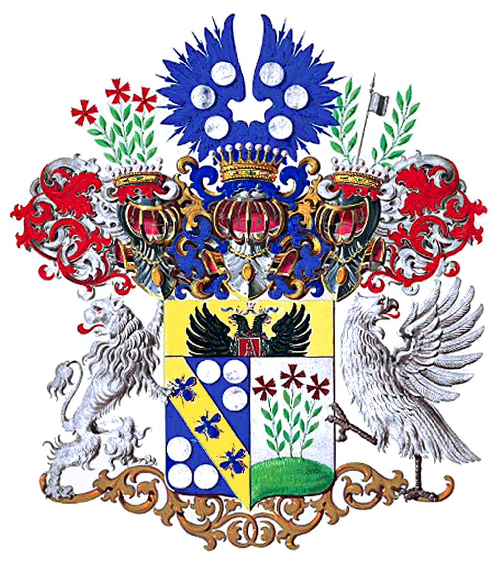 Family coat of arms of the Counts of Reutern, Barons of Nolcken granted by Alexander III of Russia, recorded on page 7 of chapter 16 in the Armorial book of the noble families of the Russian Empire on 29 May 1891. Armorial file of the Counts of Reutern Heraldic Department of the Government Senate on combining the arms of Reutern and Nolcken 1891( RGIA, p.1343, op.28, d.1191). Escutcheon Overall in the fess point an escutcheon per pale Azure, a bend Or charged with three bees Azure and three coins Argent on either side dexter (von Reutern, Germany 1691); and Argent sinister, a three carnation flowers Proper growing out of a mount in base Vert (von Nolcken Germany, Sweden 1694); on a chief of the third Or, a double-headed eagle displayed Sable, armed and langued Gules, crowned Proper; with an escutcheon Gules, a (AIII) monogram of Alexander III of Russia Or (von Reutern, Russia 1890). Supporters Dexter, a lion rampant regardant Argent; Sinister, an eagle rampant regardant winged Argent. Crest 1st Issuant from a coronet Or a pair of wings Azure each charged with 3 coins Argent with a Count coronet Or; 2nd Three carnation flowers Proper growing out of a mount in base Vert with Baron coronet Or; 3rd Between two wooden branches a military standard on a wooden pole all proper.